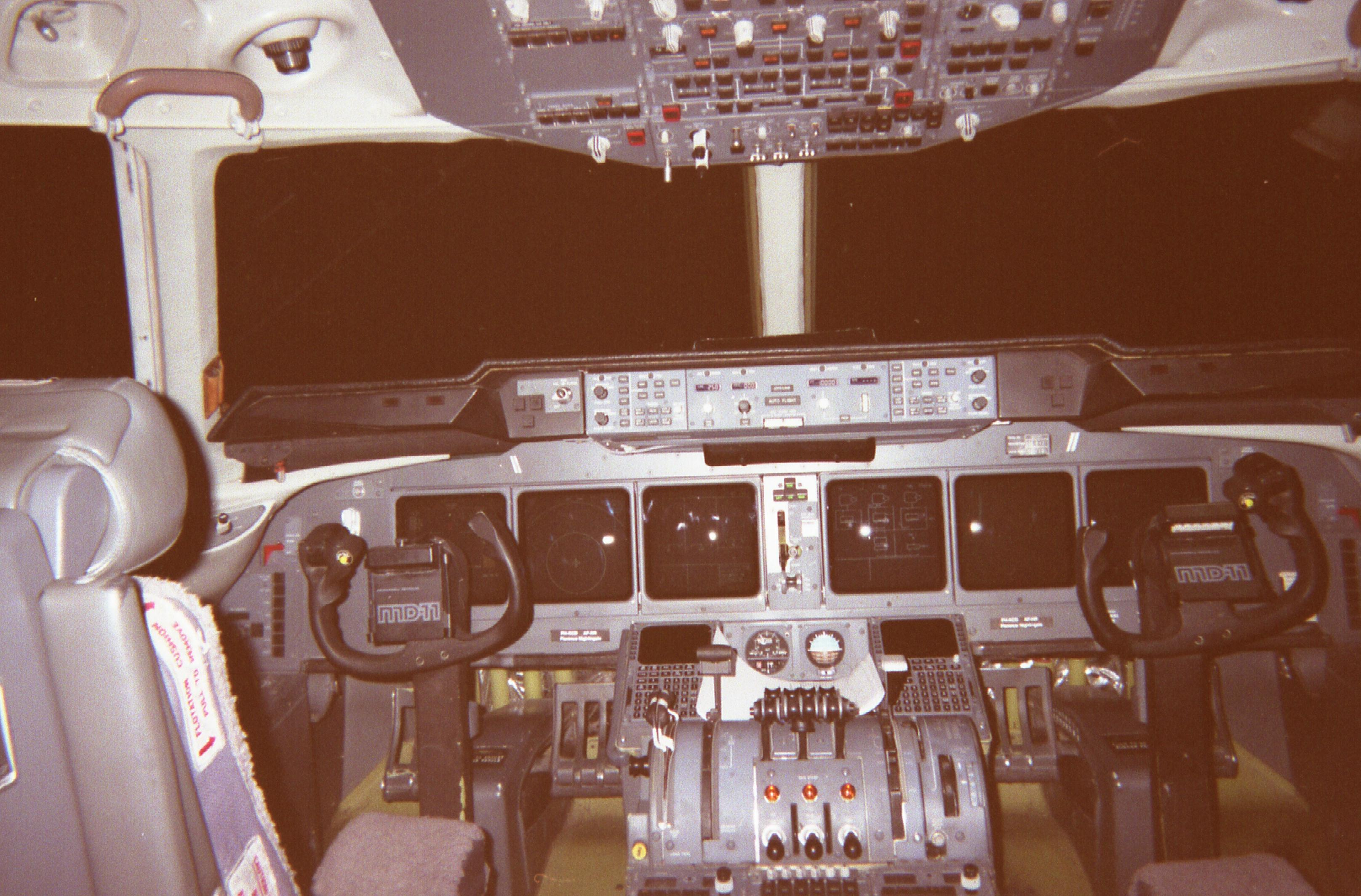 Cockpit of an MD-11